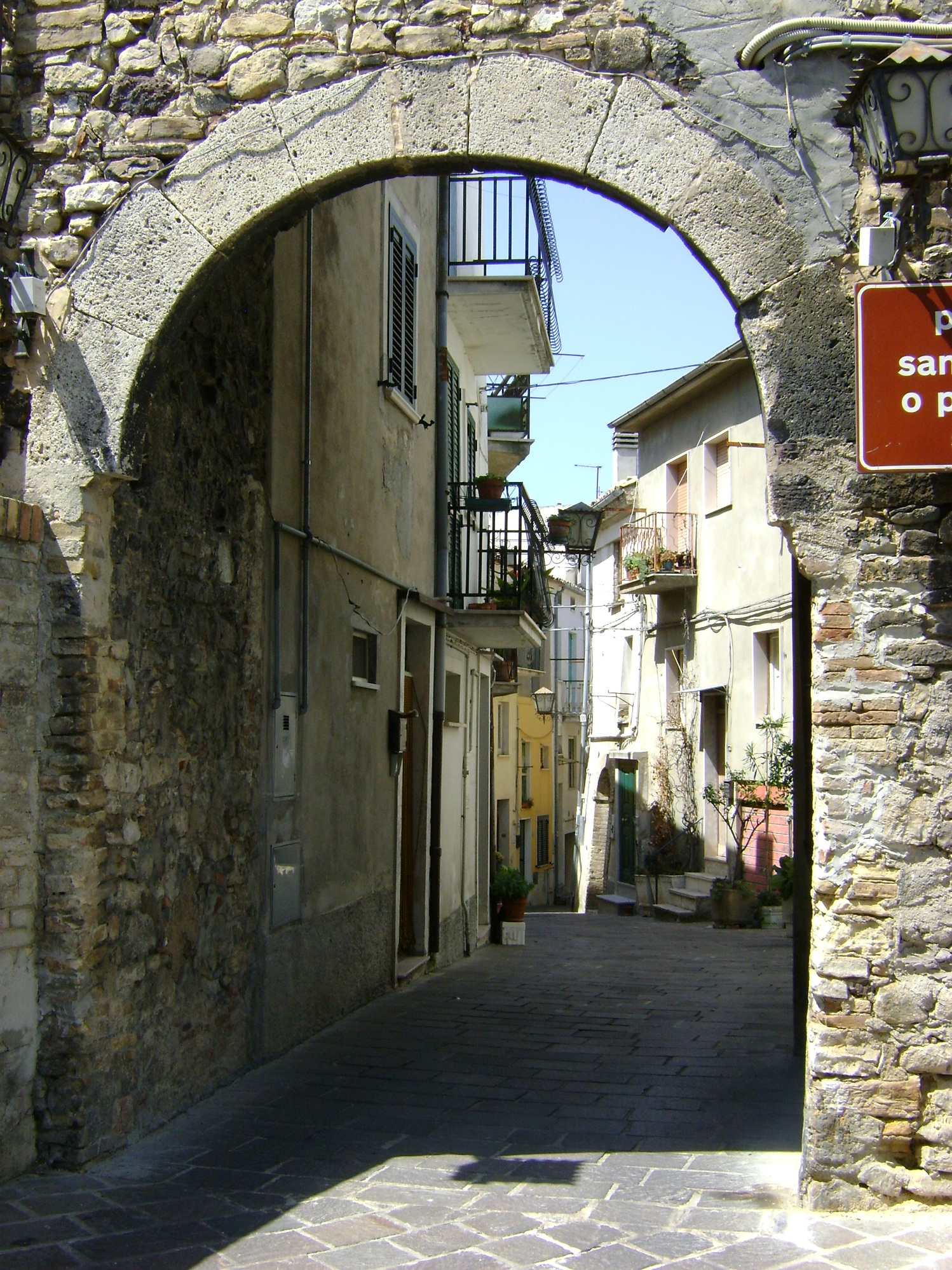 Belvedere street seen in the arch of the door of St. Michael, Atessa, province of Chieti, Abruzzo